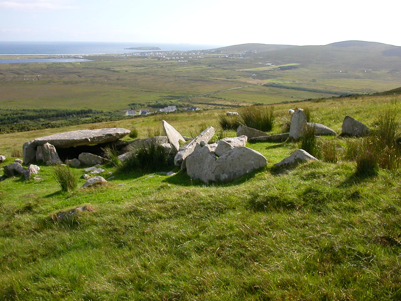 Neolithic tomb on Achill Island in Ireland